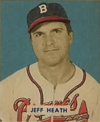 Boston Braves outfielder Jeff Heath.